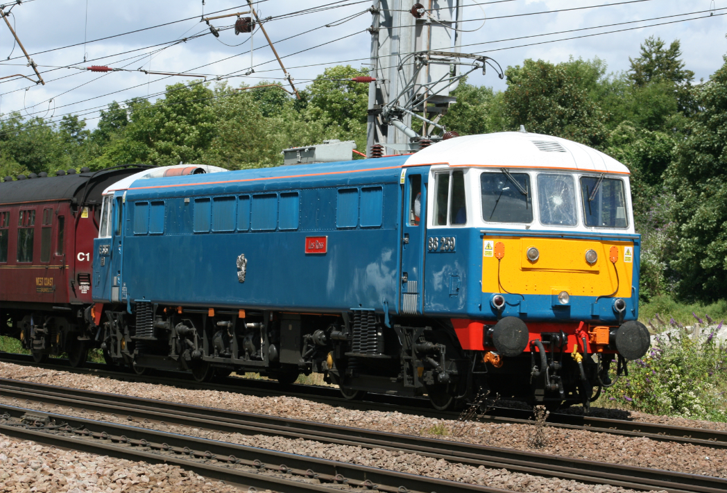 Classic preserved West Coast Main Line 1960s electric locomotive 'Les Ross.'